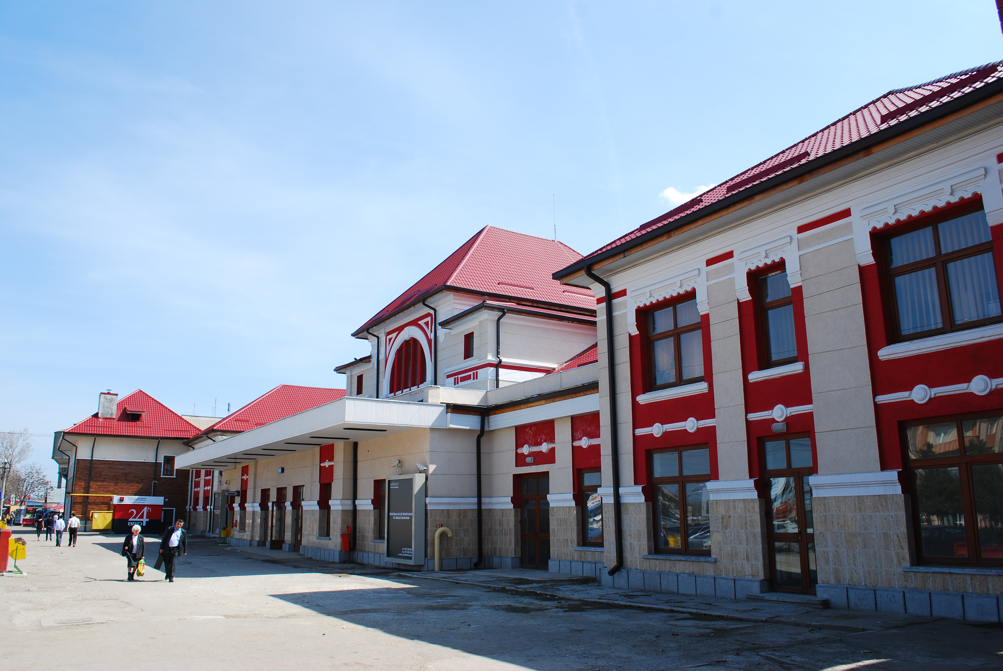 The train station in Buzău, Romania